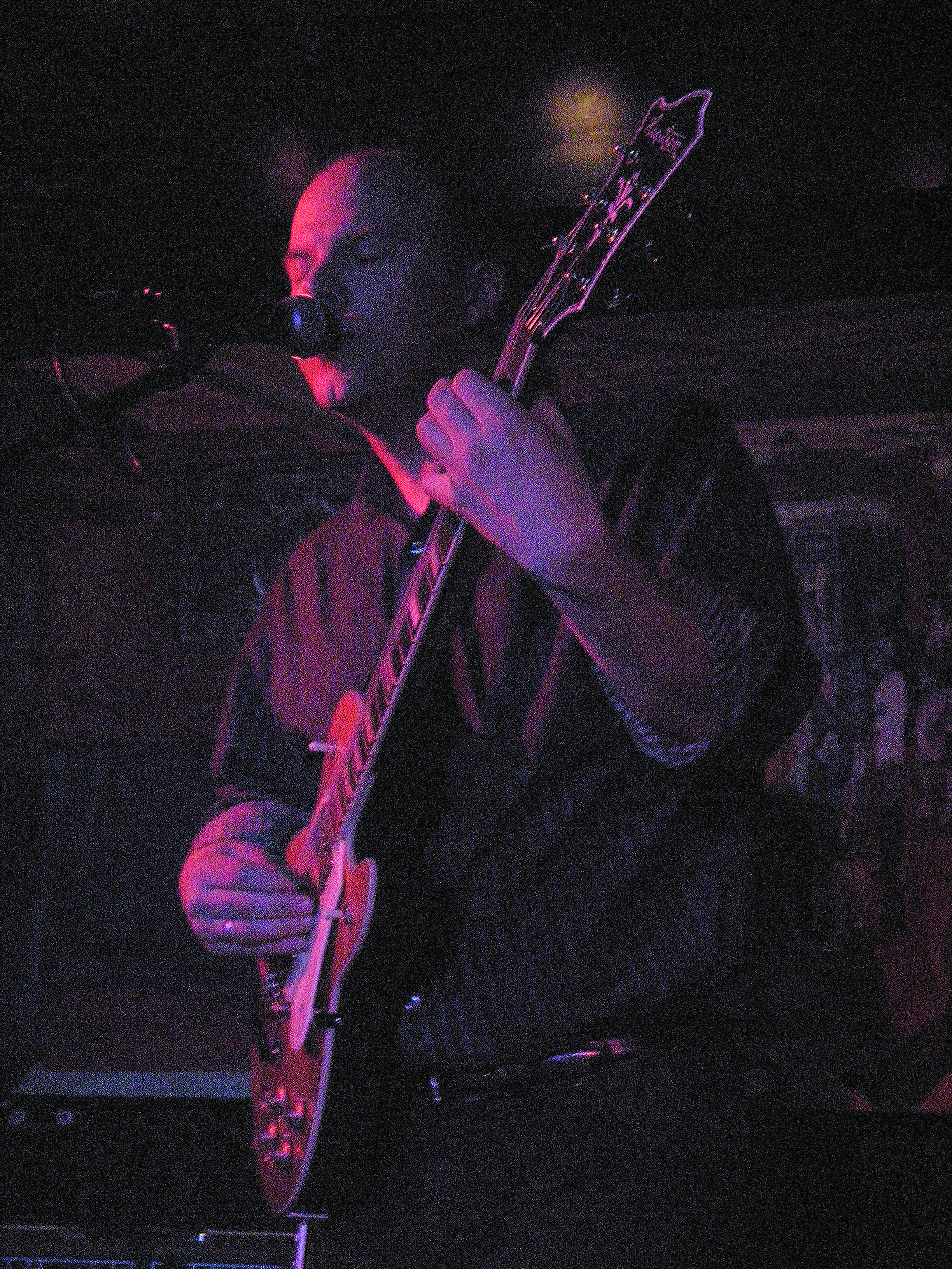 David Grubbs performing as part of EMP Pop Conference Night at the Sunset in Seattle's Ballard neighborhood, part of the 2009 Pop Conference, Experience Music Project, Seattle, Washington.